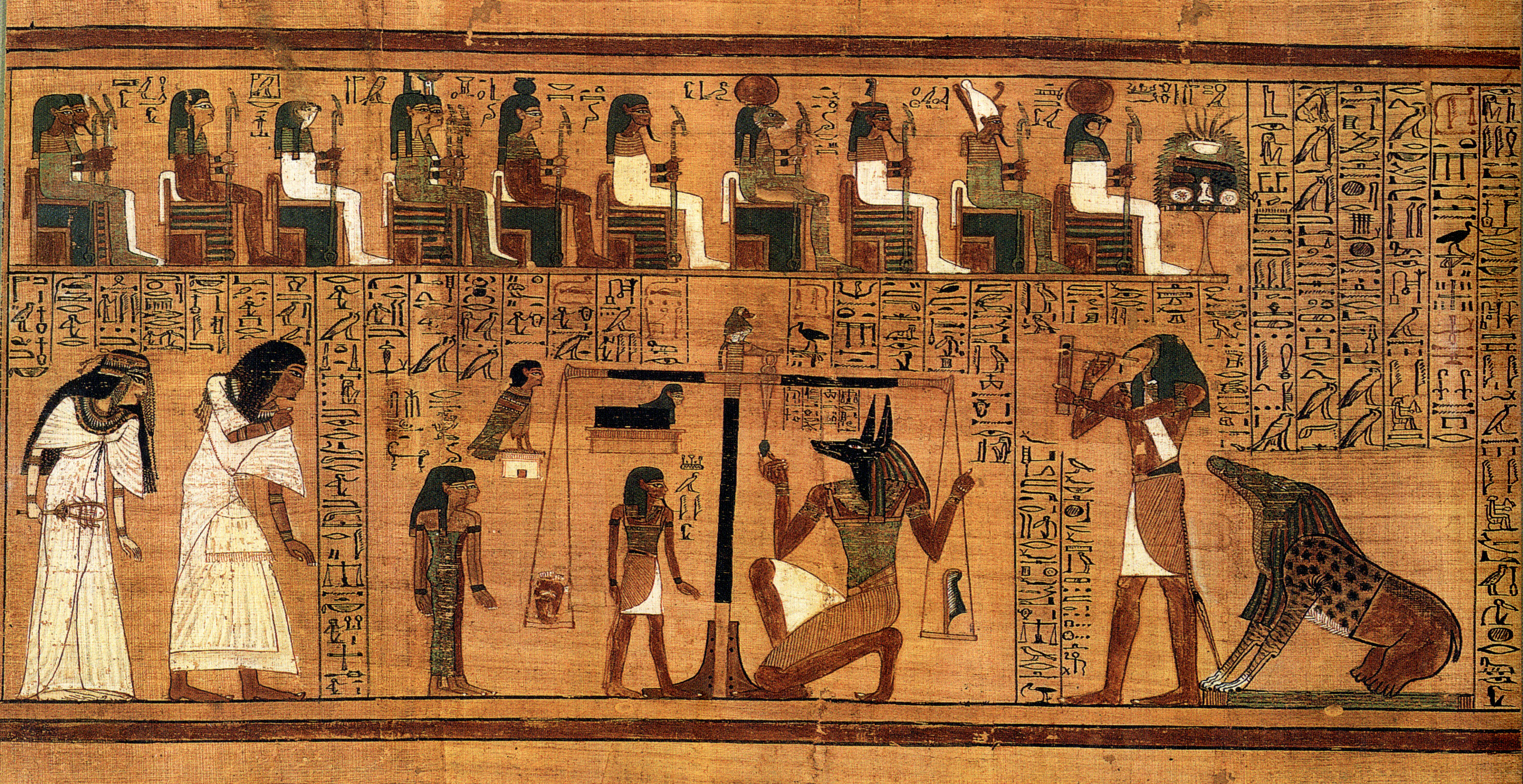 The Weighing of the Heart from the Book of the Dead of Ani. At left, Ani and his wife Tutu enter the assemblage of gods. At center, Anubis weighs Ani's heart against the feather of Maat, observed by the goddesses Renenutet and Meshkenet, the god Shay, and Ani's own ba. At right, the monster Ammut, who will devour Ani's soul if he is unworthy, awaits the verdict, while the god Thoth prepares to record it. At top are gods acting as judges: Hu and Sia, Hathor, Horus, Isis and Nephthys, Nut, Geb, Tefnut, Shu, Atum, and Ra-Horakhty.